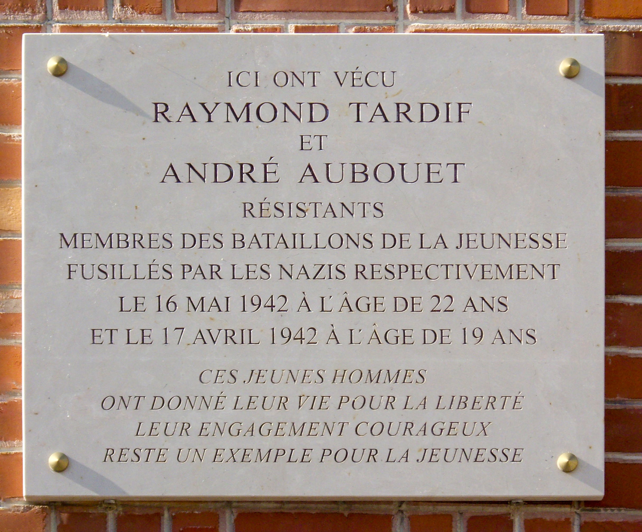 Plaque commémorative, 156 rue Raymond-Losserand, Paris 14e. « Ici ont vécu Raymond Tardif et André Aubouet, résistants, membres des Bataillons de la Jeunesse, fusillés par les nazis respectivement le 16 mai 1942 à l'âge de 22 ans et le 17 avril 1942 à l'âge de 19 ans. Ces jeunes hommes ont donné leur vie pour la liberté. Leur engagement courageux reste un exemple pour la jeunesse. »